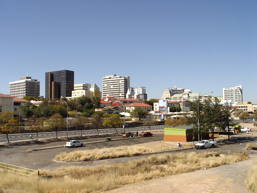 The capital city Windhoek.